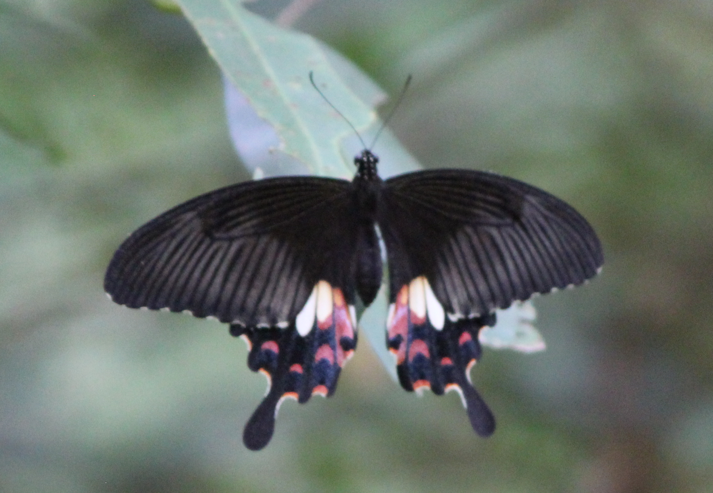 Common mormon from Parambikulam T R (43)